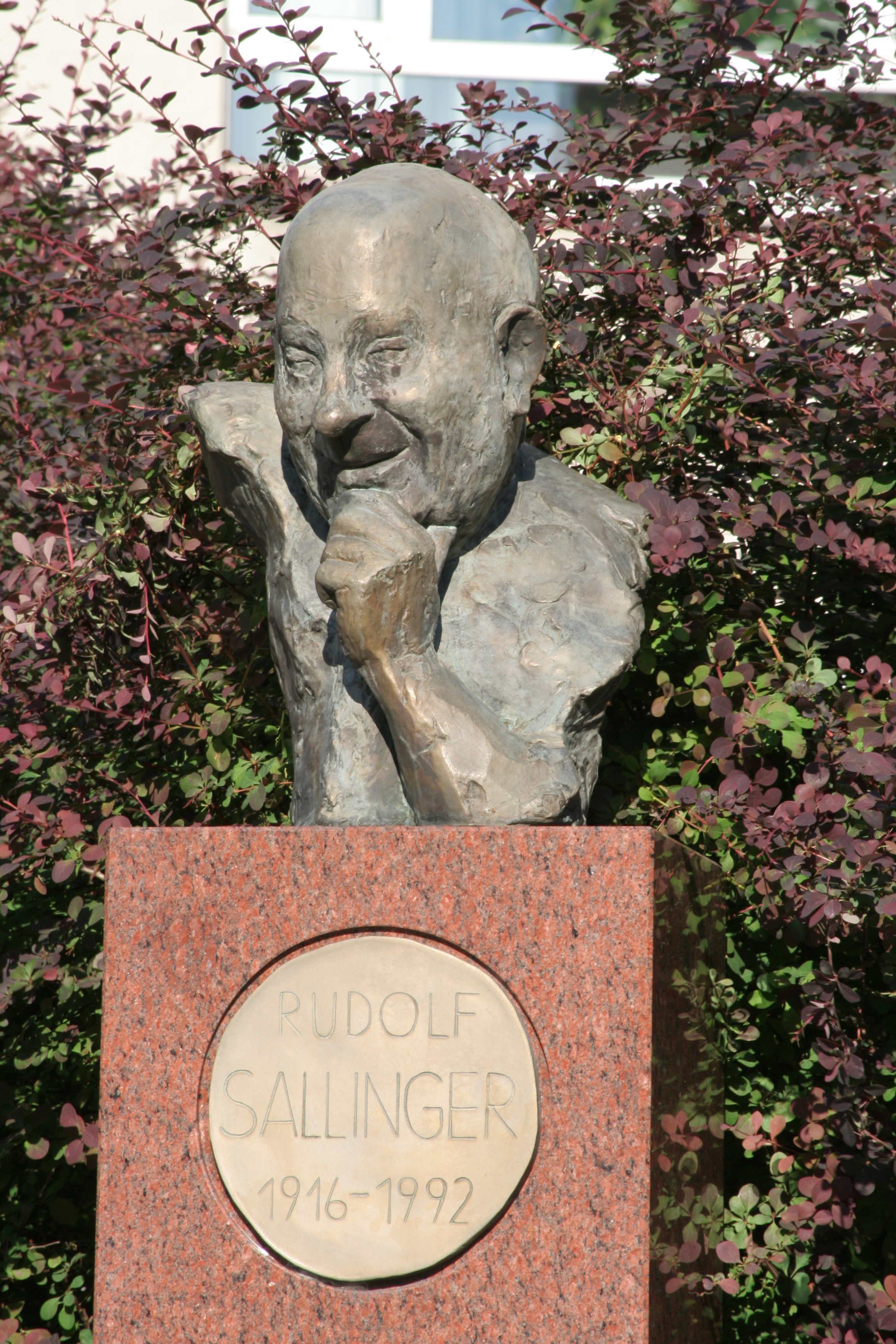 Denkmal of President Rudolf Sallinger, 1030 Vienna, Rudolf-Sallinger Platz, created by Hortensia, 1996